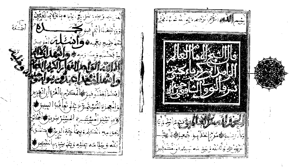 Manuscript of Nawawi's Forty Hadith - Chester Beatty Library